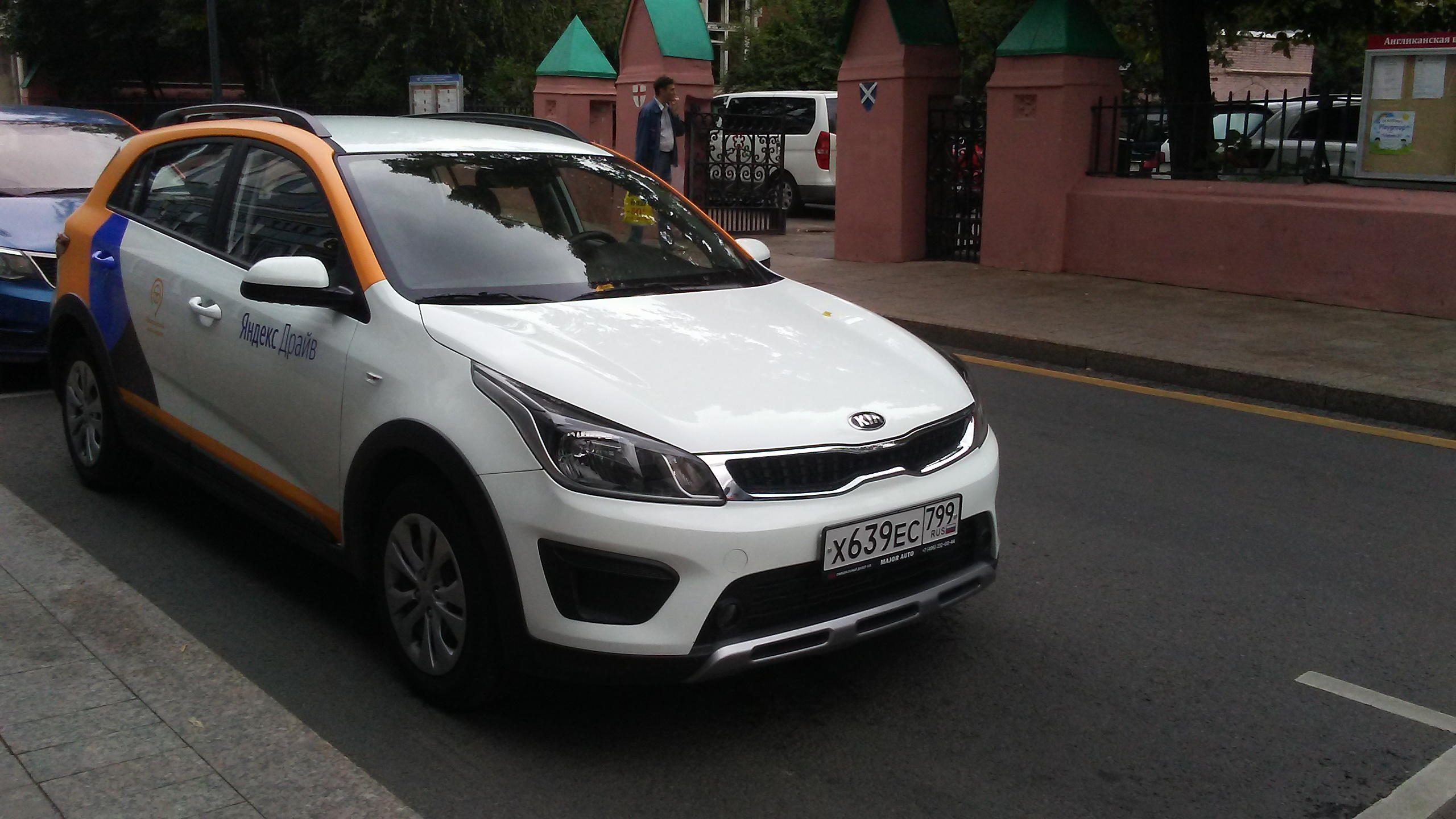 Kia X-Line of the Yandex Drive carsharing company in Moscow